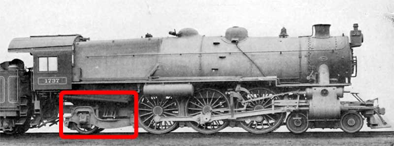 Highlighted trailing wheels. Based on an image from the 1922 Locomotive Cyclopedia of American Practice which is now in the public domain.